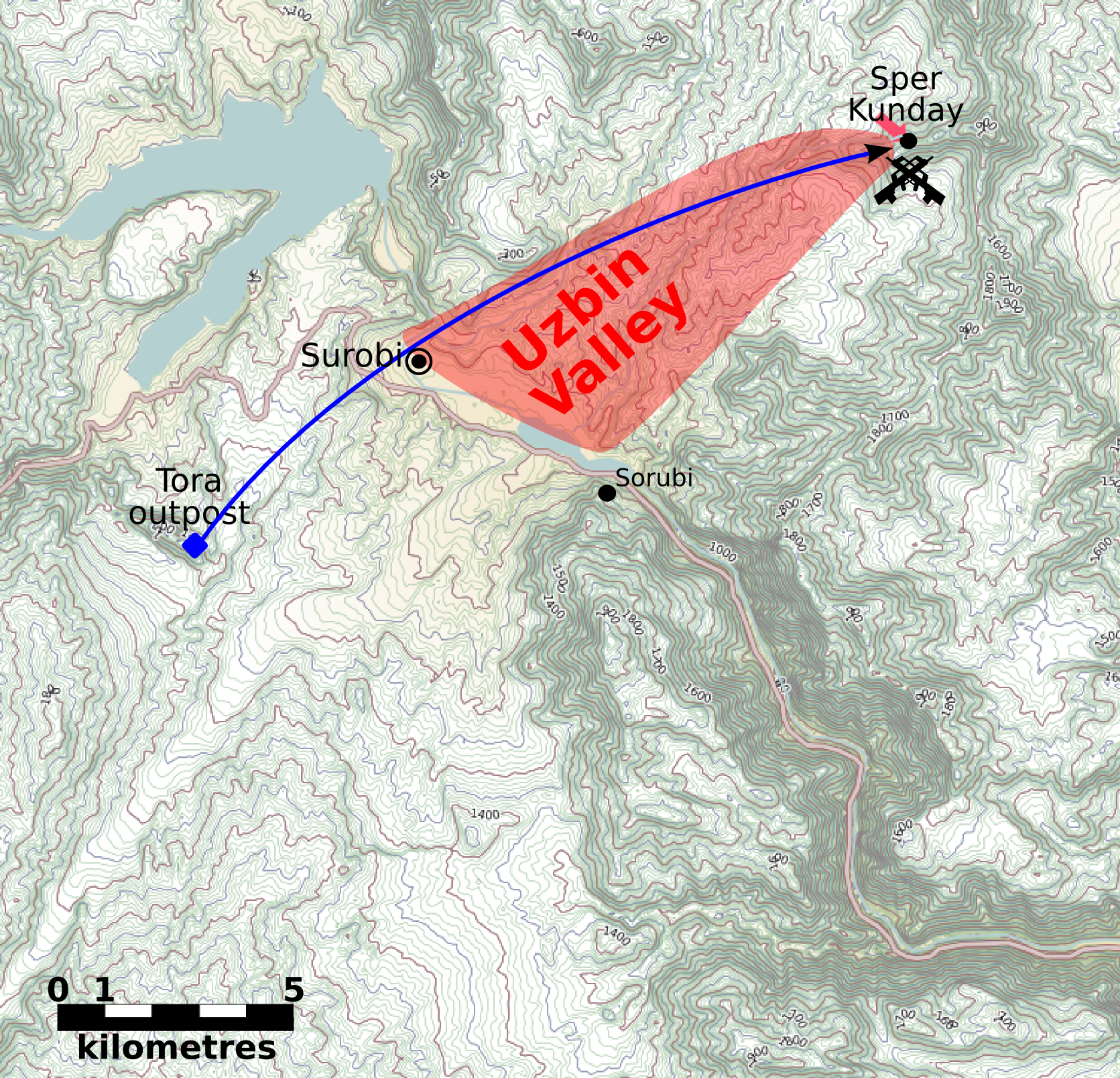 Uzbin Valley ambush: location of Uzbin Valley and Sper Kundai with respect to the Tora outpost, base of the French elements involved in the battle.